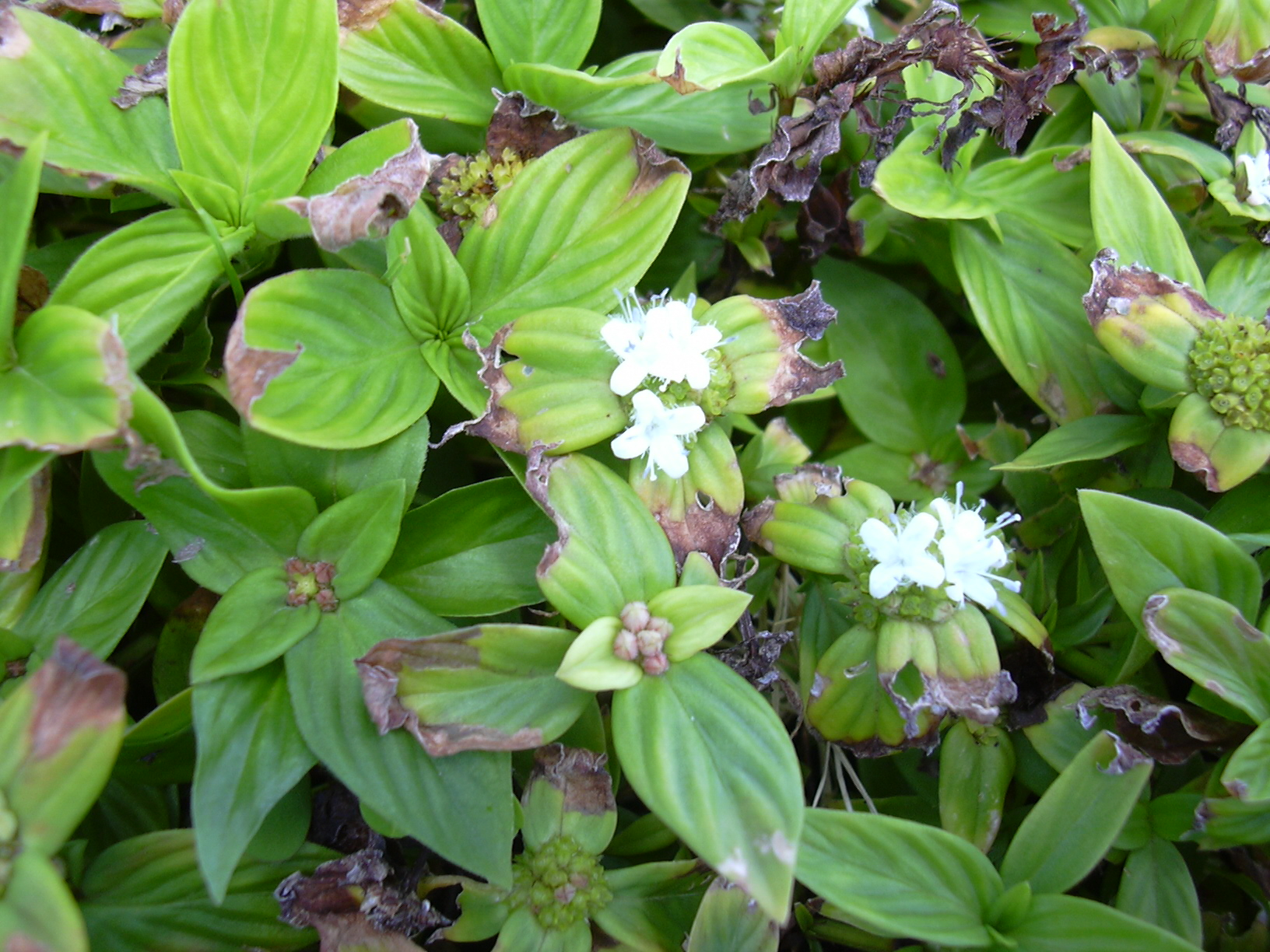 Spermacoce assurgens (flowers). Location: Maui, Puhilele Pt Haleakala National Park